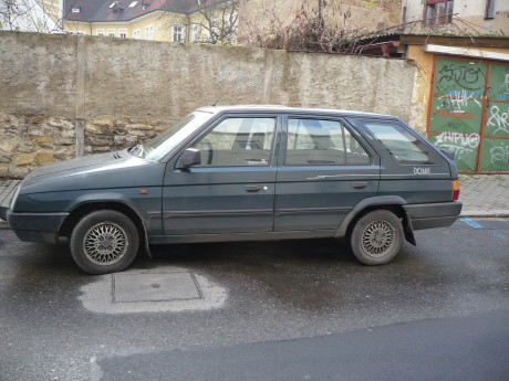 Skoda Favorit Estate Excellent